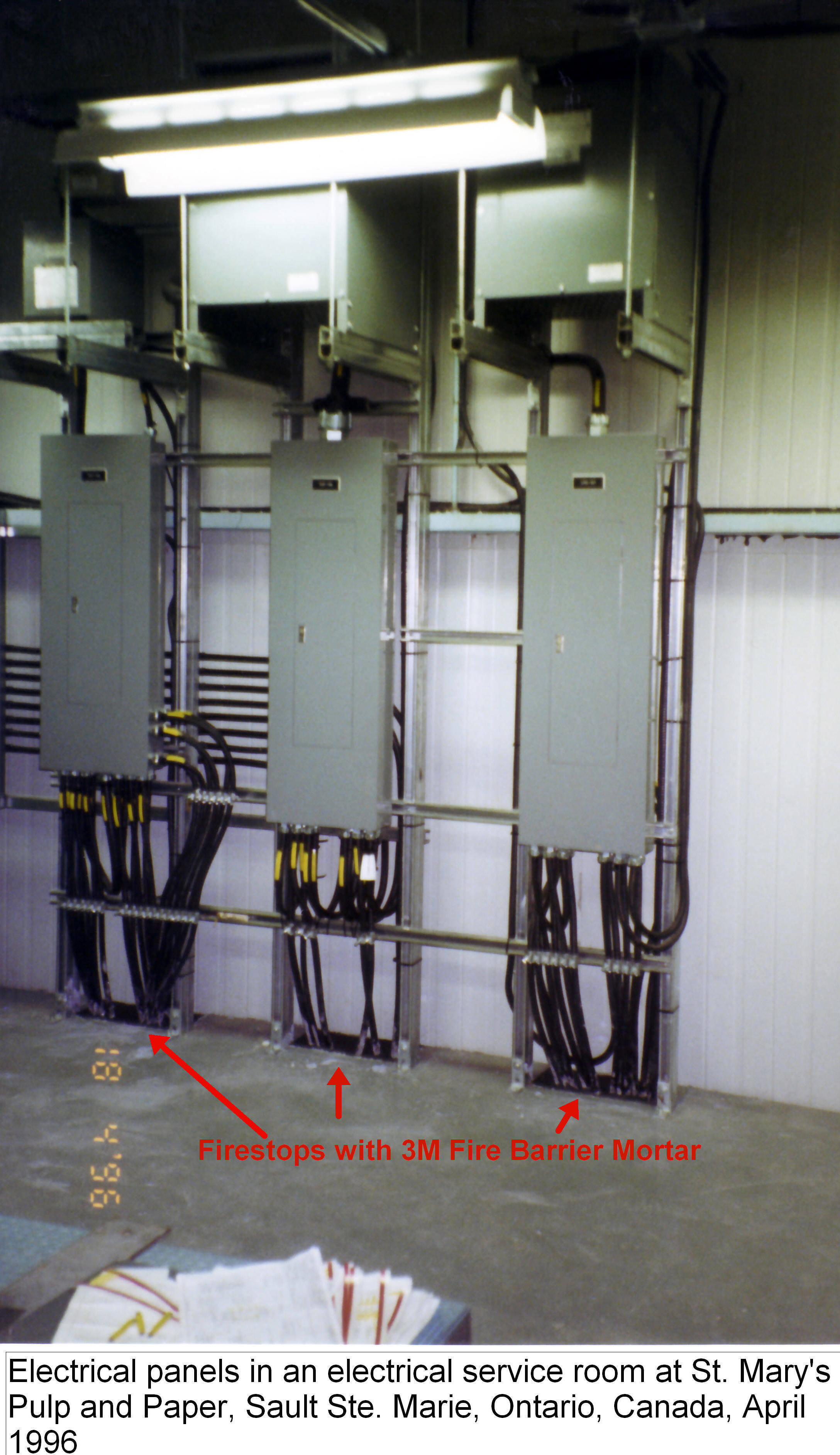 Electrical panels, cables and firestops in an electrical service room at St. Mary's Pulp and Paper, a paper mill in Sault Ste. Marie, Ontario, Canada.